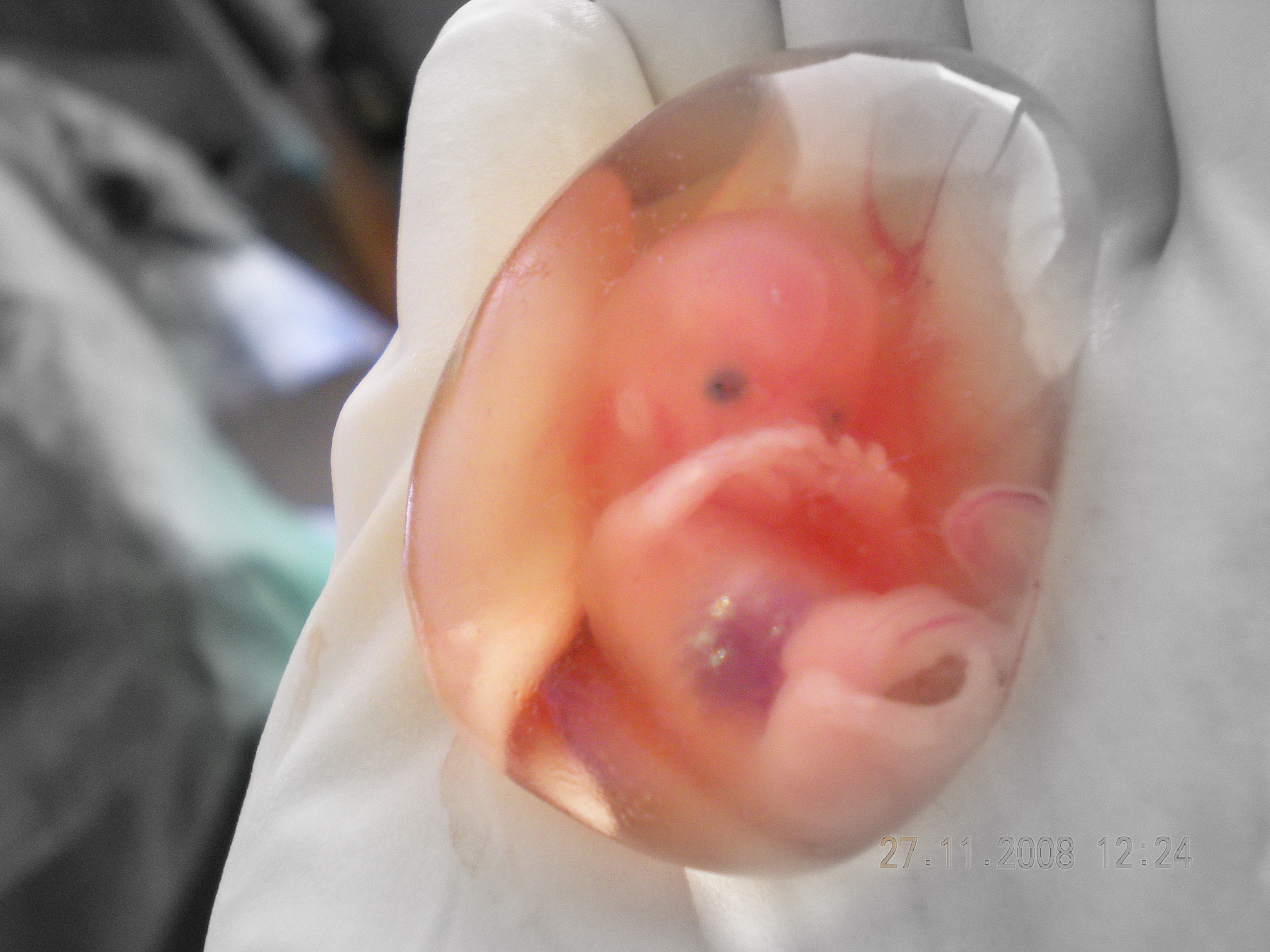 A 44-years old gravid female with previous 6 children was diagnosed with carcinoma in situ of cervix (early stage cancer of womb). So total removal of uterus (womb) with embryo in situ was considered to be inevitable for future health of the lady. The embryo is still alive. The author of this image states that it shows a embryo at 10 weeks gestation (i.e. from LMP), which is 8 weeks after fertilisation.